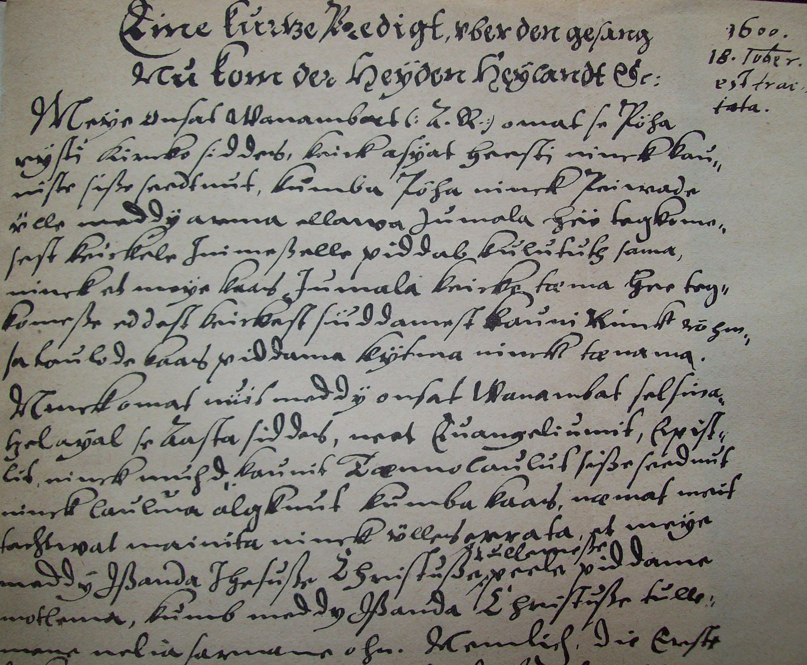 Photography from: Neununddreißig Estnische Predigten von Georg Müller aus den Jahren 1600-1606. Mit einem Vorwort von Wilhelm Reiman. Dorpat 1891 (Verhandlungen der Gelehrten Estnischen Gesellschaft 15)